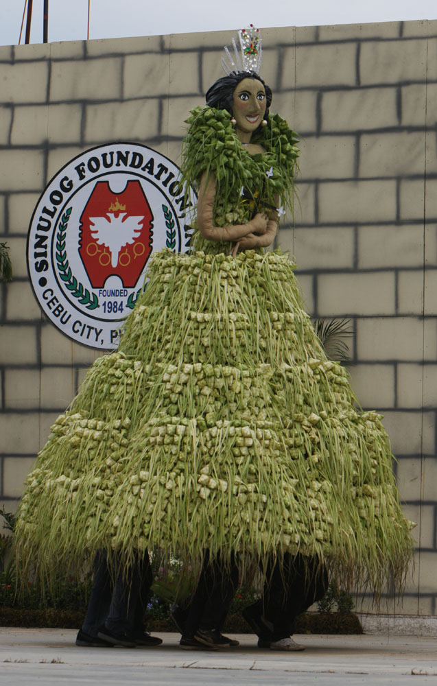 Sinulog 2010, Cebu City